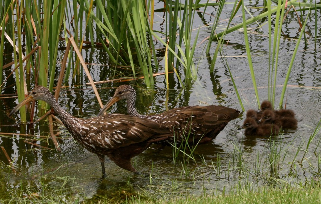 2 Limpkin (Aramus guarauna,) adults and 4 chicks total seen outside of the public library on Hagen Ranch Rd. in Boynton Beach, FL. Picture taken on 5/30/09. (Part of a set).